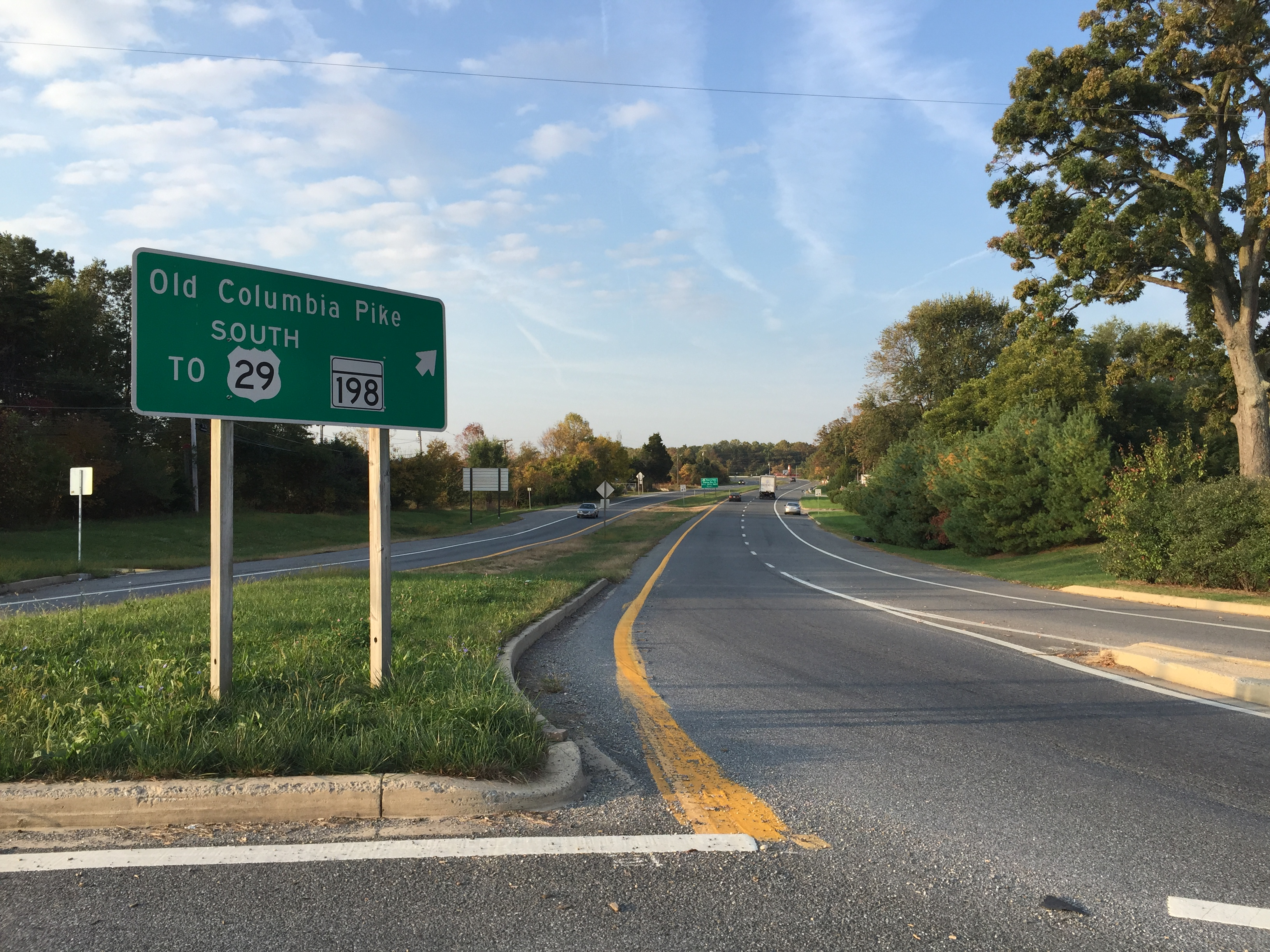 View south along U.S. Route 29 Alternate (Old Columbia Pike) at Dustin Road in Burtonsville, Montgomery County, Maryland